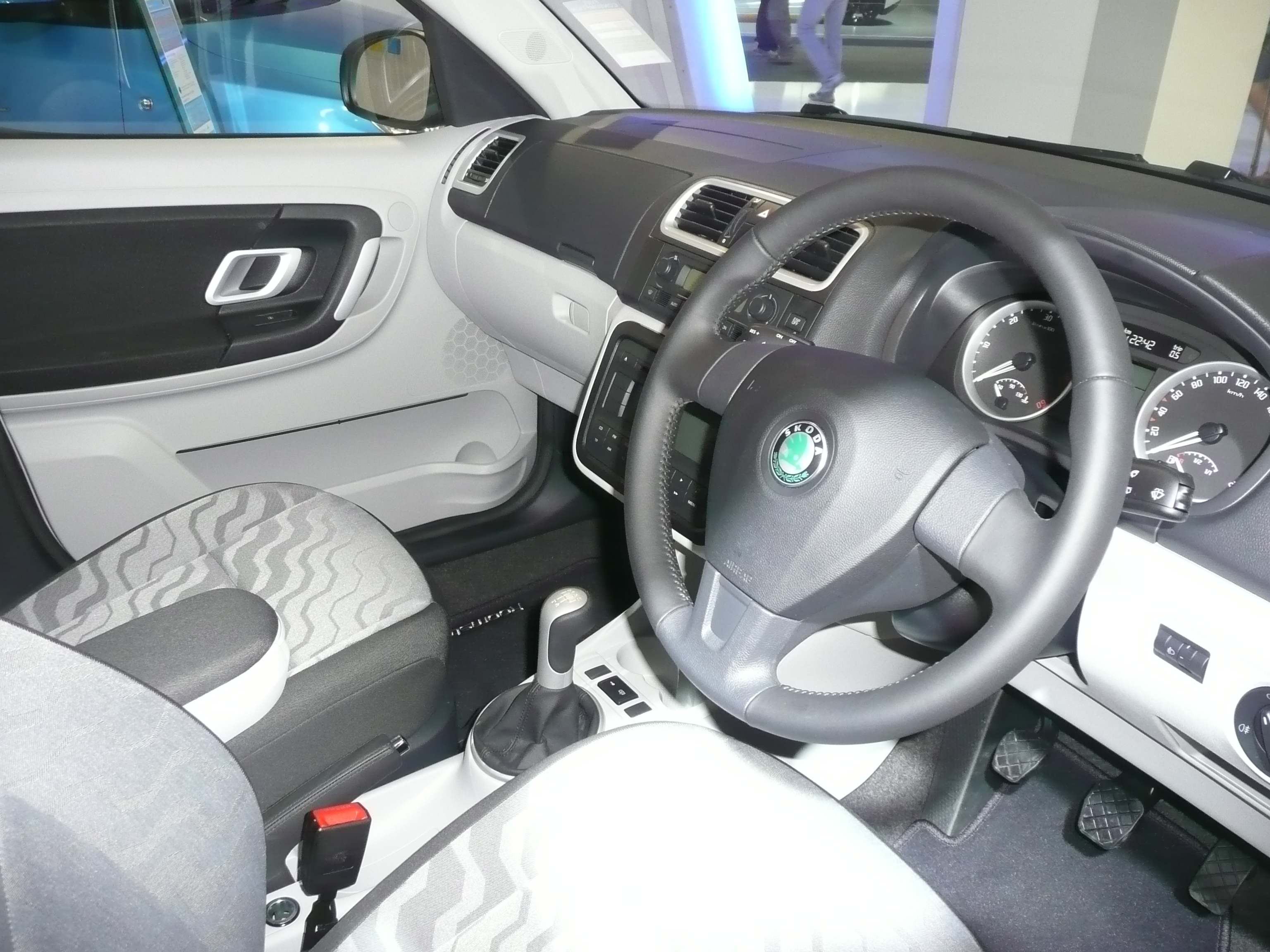 2007–2008 Škoda Roomster (5J) TDI van. Photographed at the 2008 Australian International Motor Show, Sydney, New South Wales, Australia.